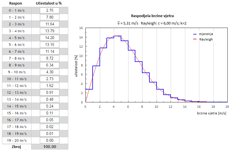 Rayleigh wind distribution